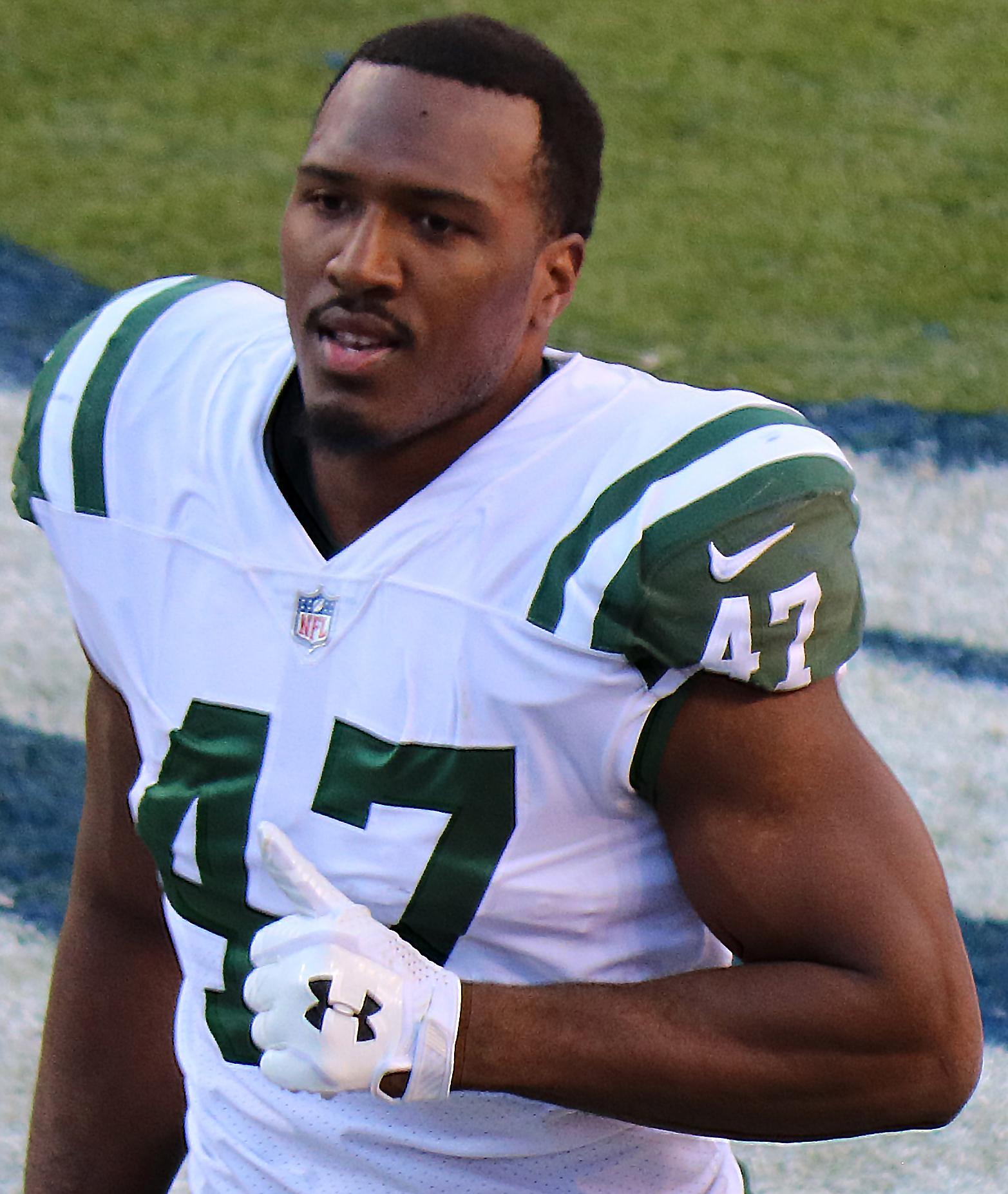 David Bass, a National Football League player.